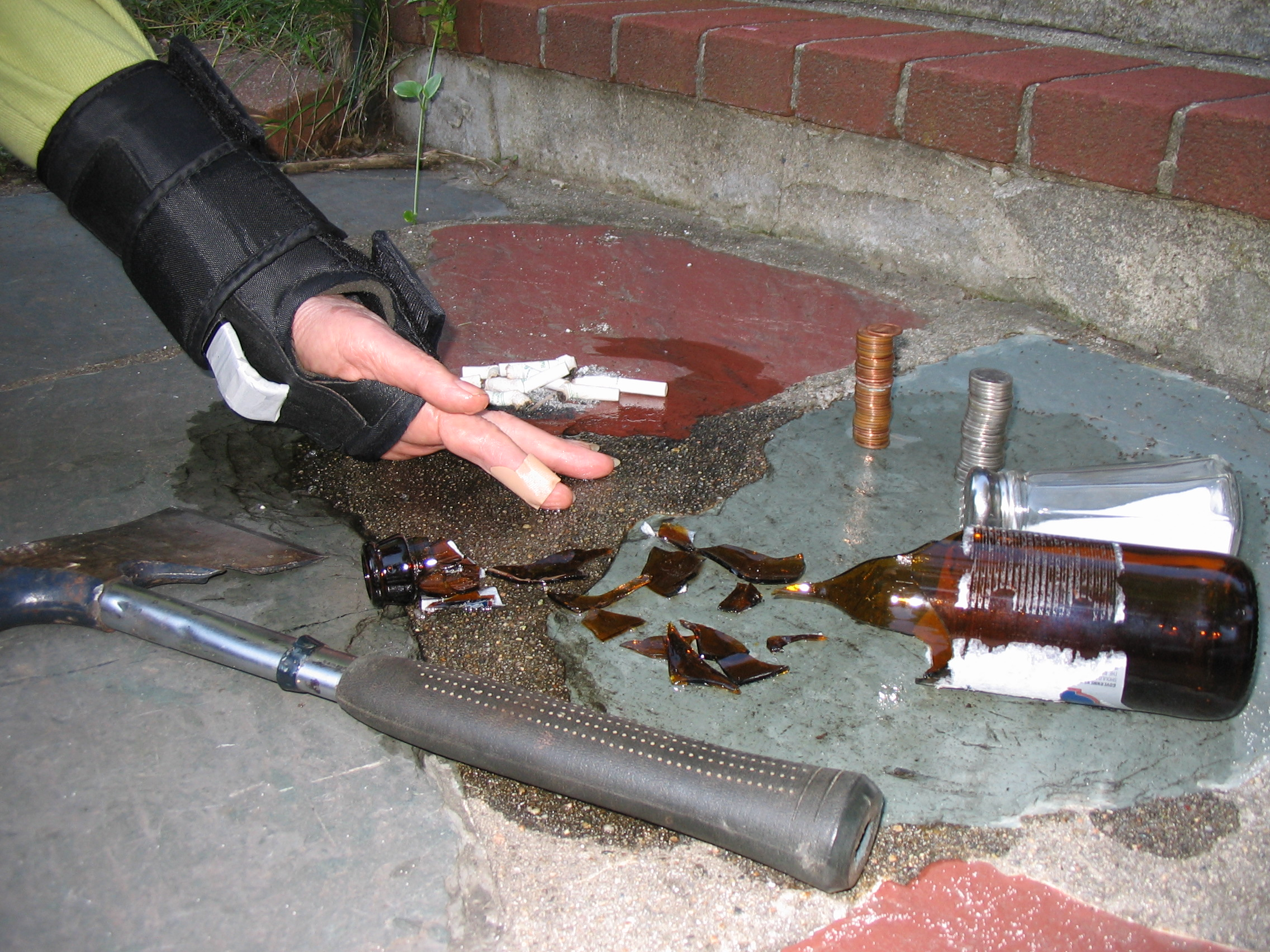 a wrist-guard of the kind worn for skateboarding and balance-boarding. Its hard plastic splint is 6 inches (15 centimeters) long, which enables the forearm and palm to absorb the impact of a fast fall. Only the splint's middle segment (its angled segment, which is white in the photo and which spans the underside of the wrist) is visible because the rest of it stays inside the black pad.